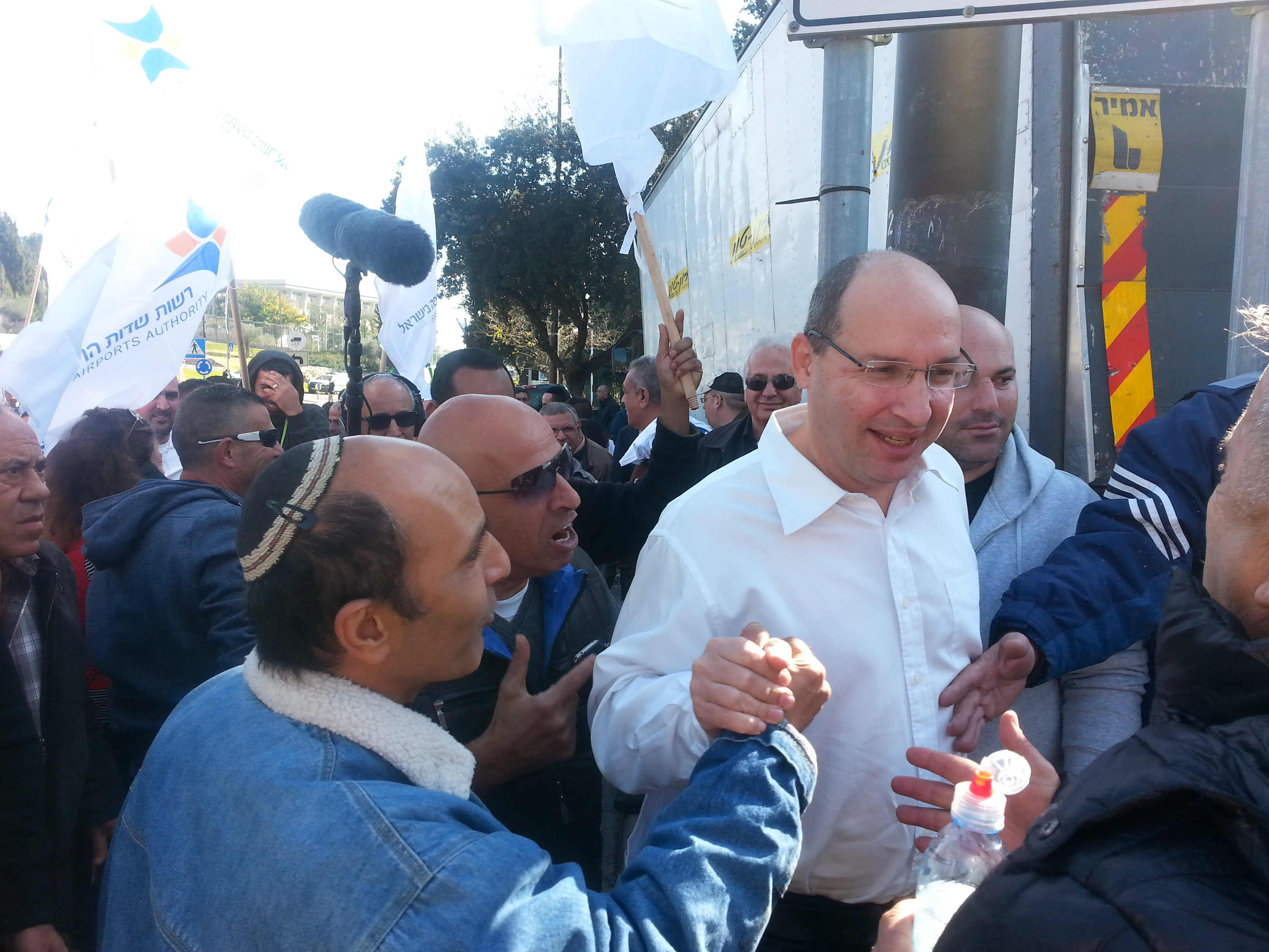 Avi Nissenkorn,chairman of HaHistadrut HaKlalit